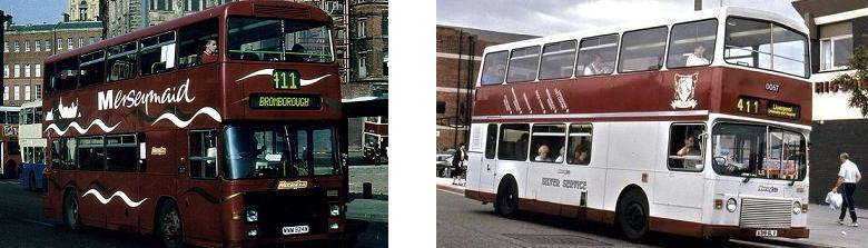 The Merseymaid (left) (on No. 1847 (reg. WWM 924W)) and Silver Service (right) (on No. 0067 (reg. A319 GLV)) branding introduced by Merseybus in 1992 for their cross-river services between Liverpool and the Wirral.